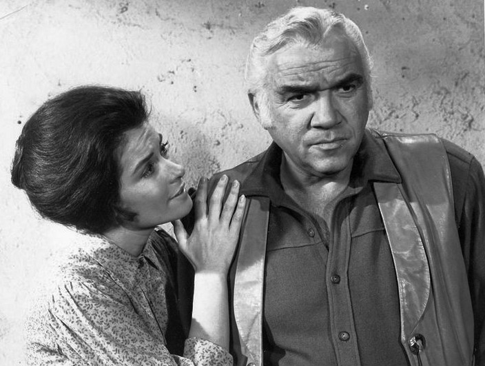 Photo of Lorne Greene as Ben Cartwright and Diane Baker from the television program Bonanza.